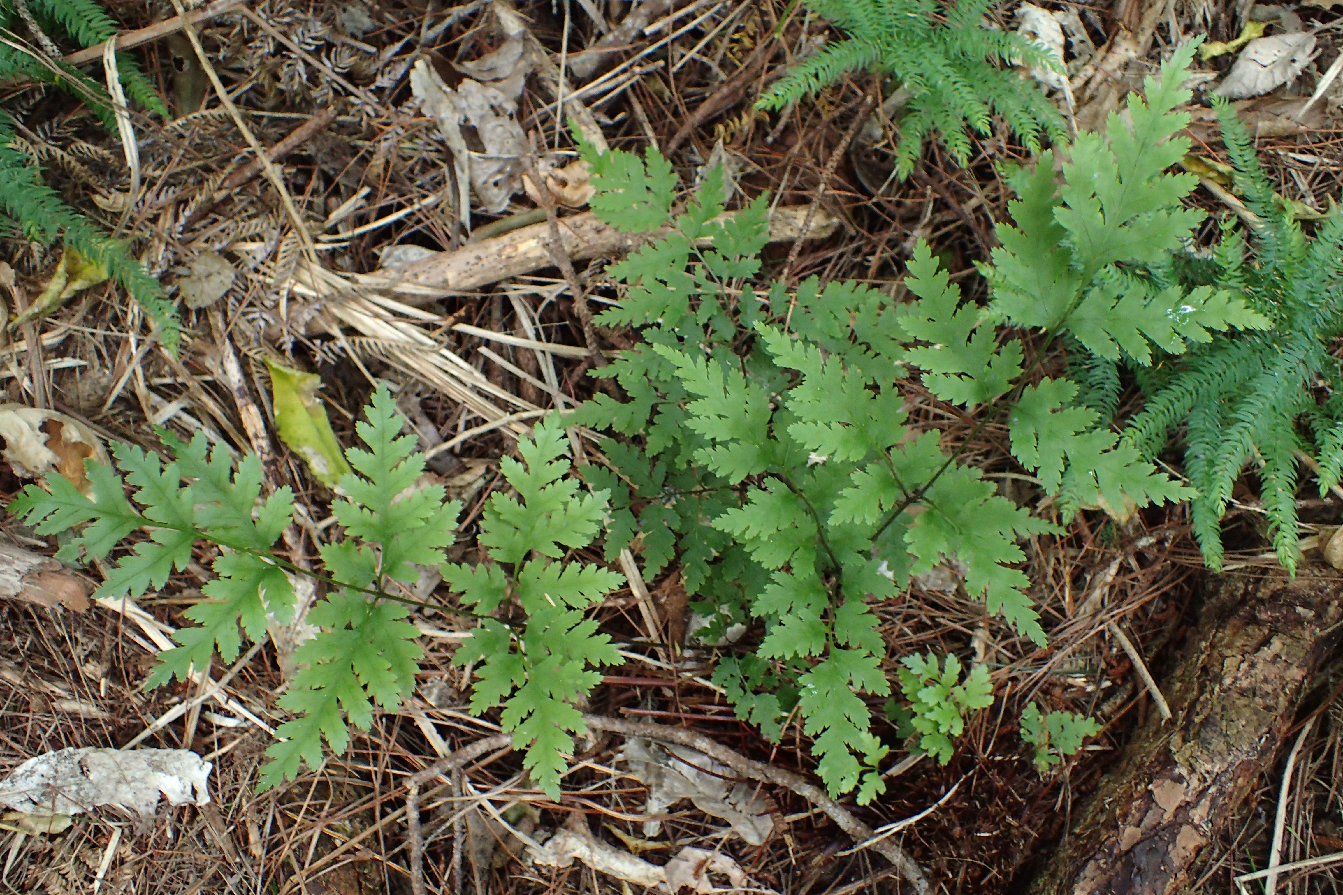 Pteris saxatilis in Thames, Waikato (New Zealand)